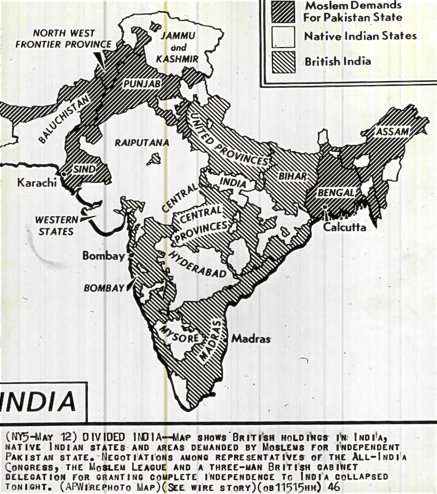 The complexity of the task - dividing South Asia and creating states from British India; a news map from May 12 1946 Map shows British Holdings in India, native states and areas demanded by Muslims for independent Pakistan state. This map was the basis for negotiations between 3-person British cabinet delegation, All-India Congress and the Muslim League. The Muslims in 1946, demanded Calcutta to be part of East Pakistan (now Bangladesh), as well as post-partition West Bengal, Assam, Arunachal Pradesh, Nagaland, Tripura, Mizoram, along with parts of what later became Meghalaya, Manipur, Haryana, Punjab (India) and Himachal Pradesh in Pakistan. The May 1946 discussions collapsed. Source: Columbia University, July 2010